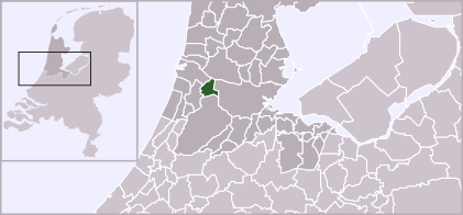 Locator map of Dutch municipalities in Noord-Holland (LocatieHaarlemmerliedeEnSpaarnwoude.png)